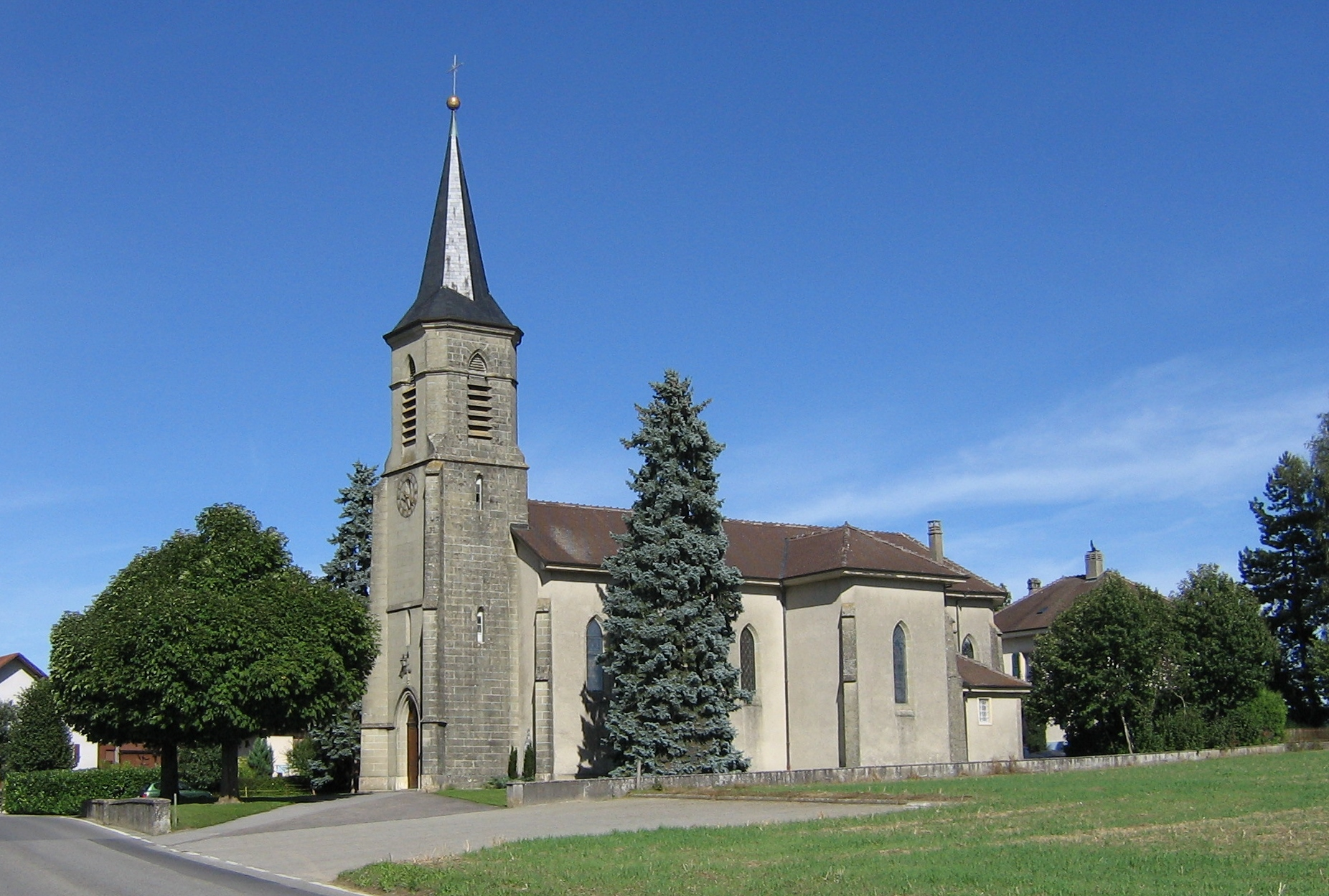 Church of the village Saint-Barthélemy, Vaud, Switzerland